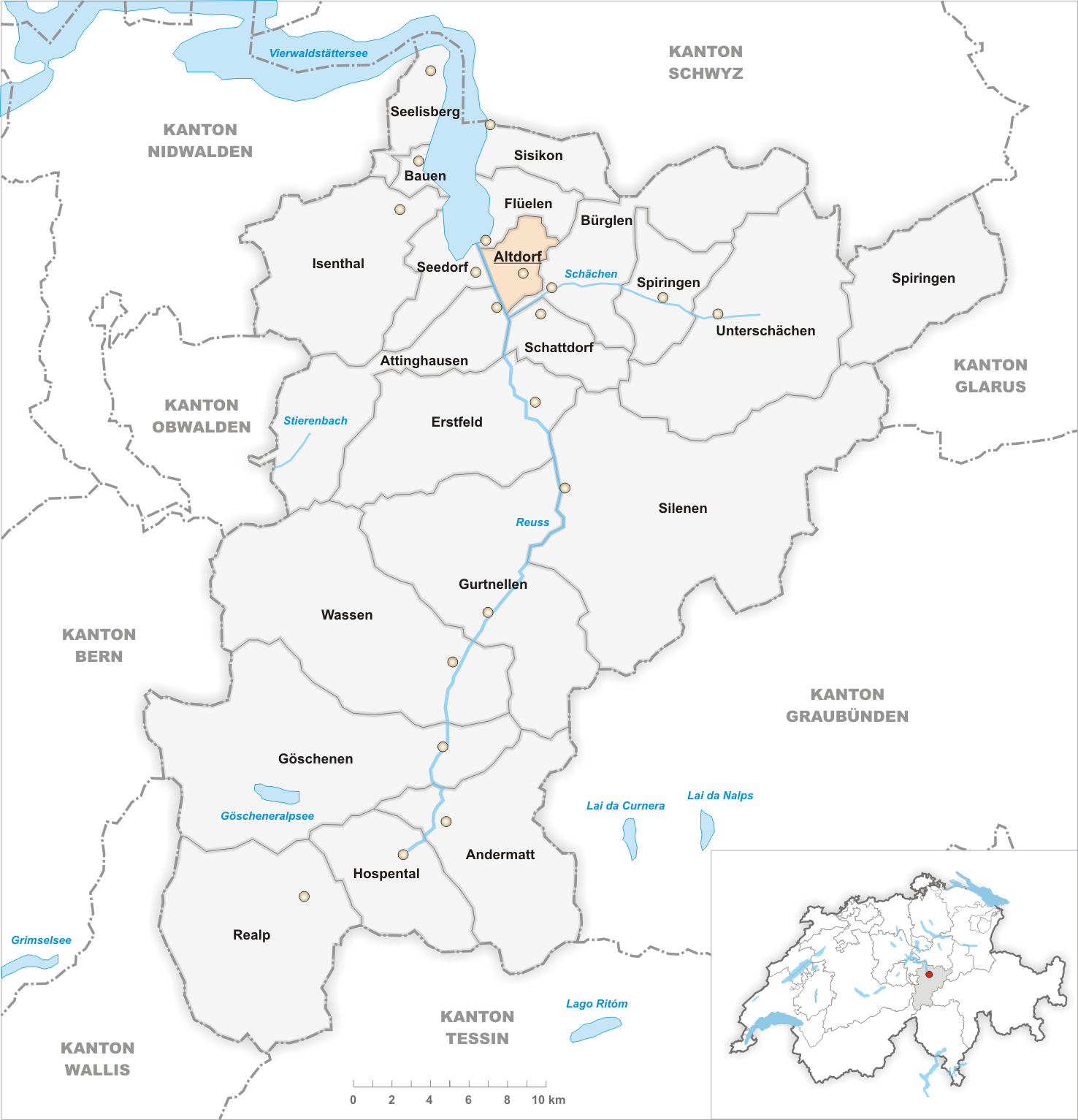 Municipality Altdorf